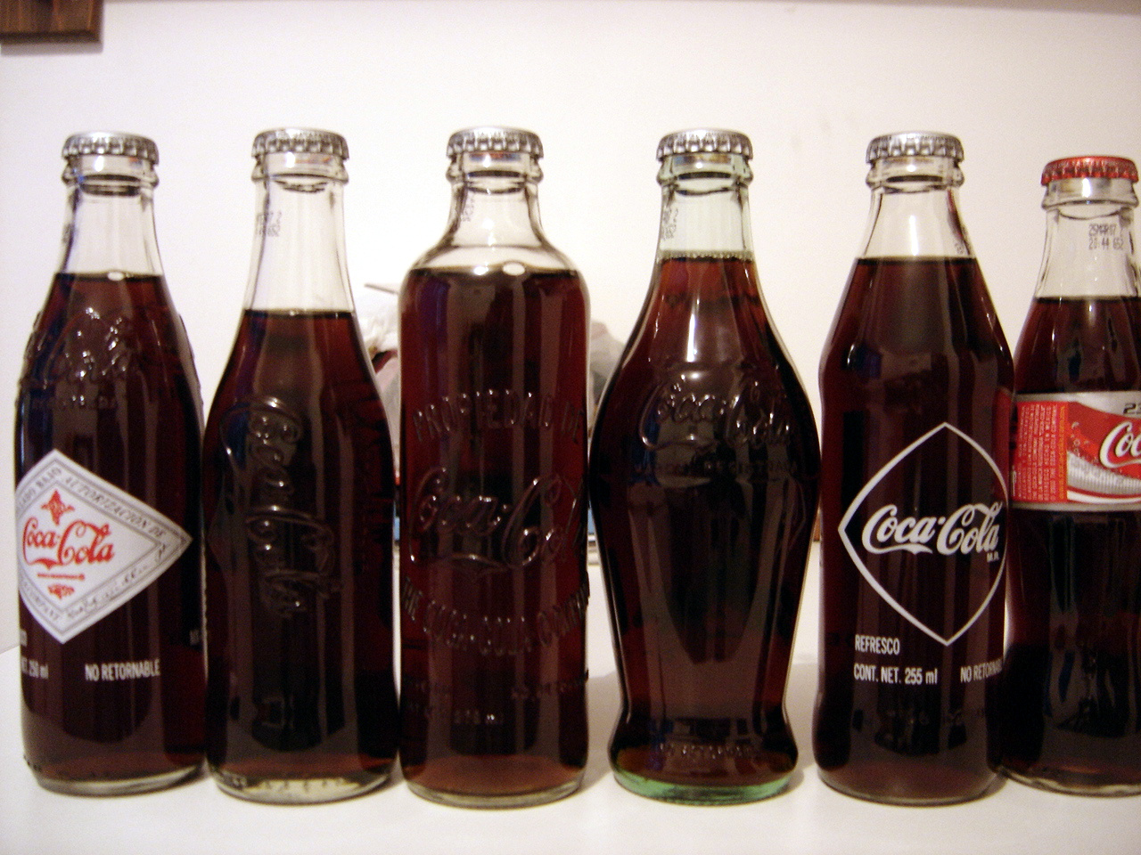 Picture of a Coca Cola collection.